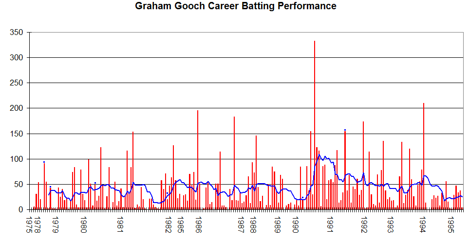 This graph details the Test Match performance of Graham Gooch. It was created by Raven4x4x. The red bars indicate the player's test match innings, while the blue line shows the average of the ten most recent innings at that point. Note that this average cannot be calculated for the first nine innings. The blue dots indicate innings in which Gooch finished not-out. This graph was generated with Microsoft Excel 2002, using data from Cricinfo and .au.